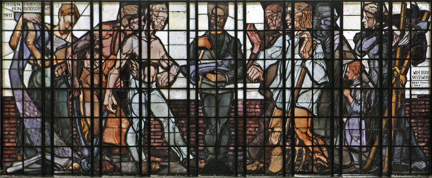 stained glass window at Hagen (Germany), Mainstation: Der Künstler als Lehrer für Handel und Gewerbe by Jan Thorn-Prikker